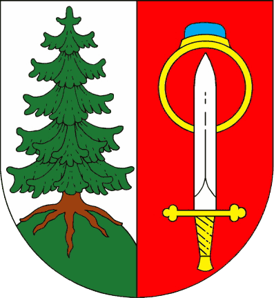 Mřičná CoA CZ